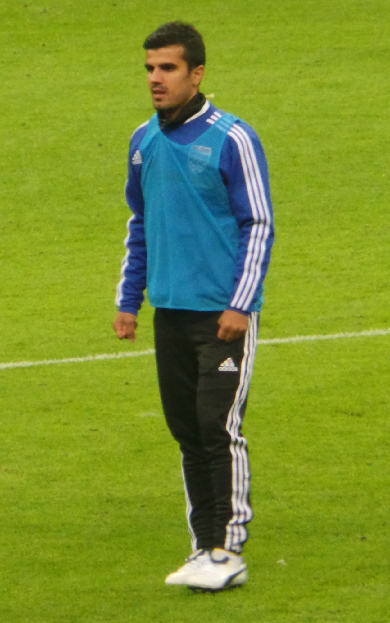 Onur Kalafat warming at G.S. match.